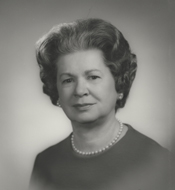 Congresswoman Elizabeth B. Andrews